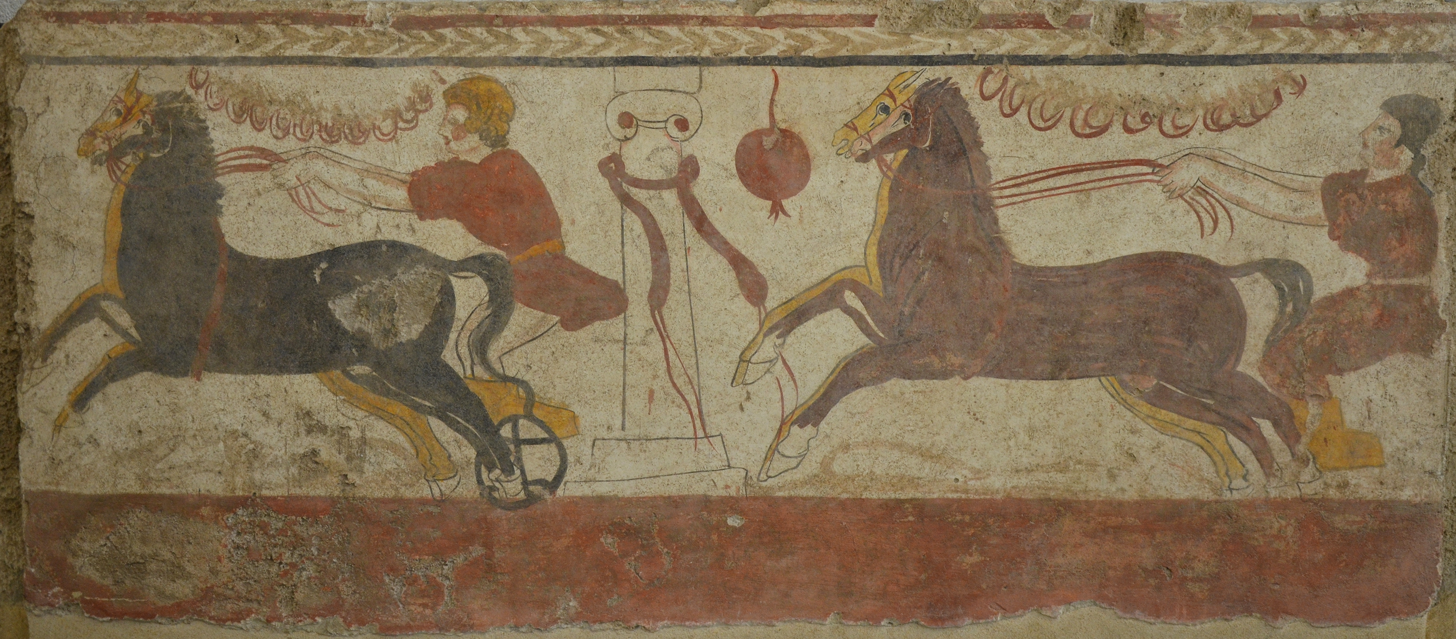 Lucanian fresco tomb painting of a man racing a chariot past the winning post, 3rd century BC, PaestrumPaestum Archaeological Museum